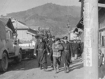 Arrest of JCP(Japanese Communist Party) member